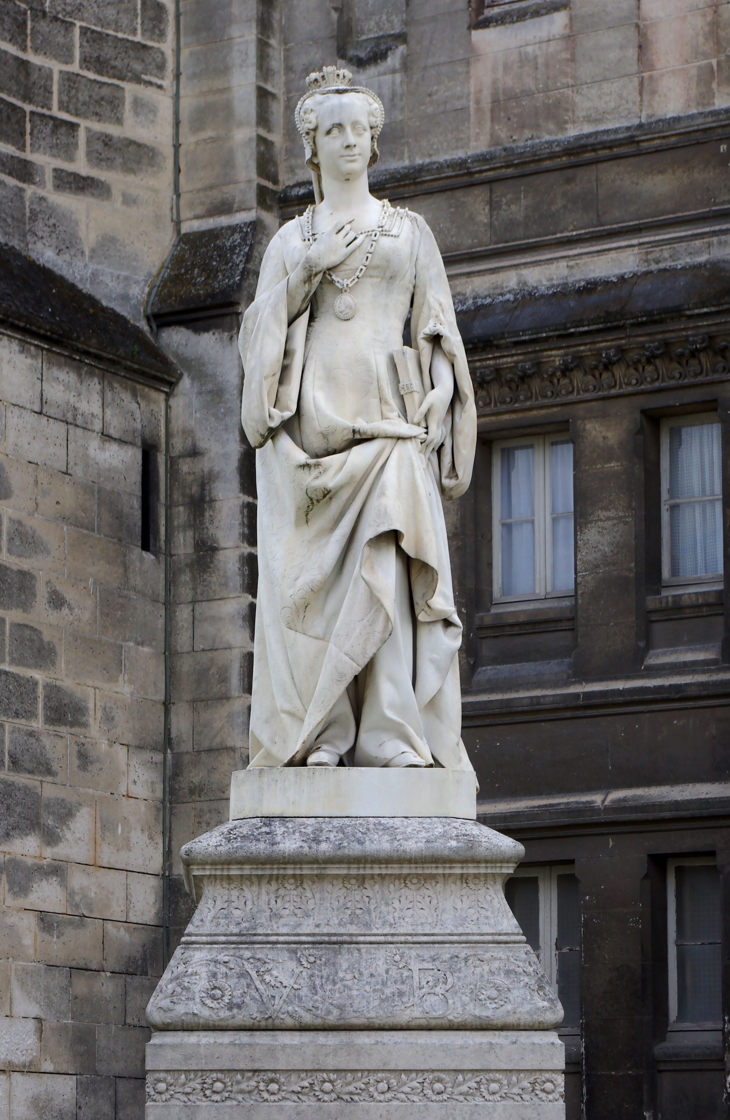 Marble statue of Marguerite d'Angoulême who wrote L'Heptaméron, by Jacques Joseph Emile Badiou de la Tronchère (XIXth century). City hall gardens, Angoulême, France